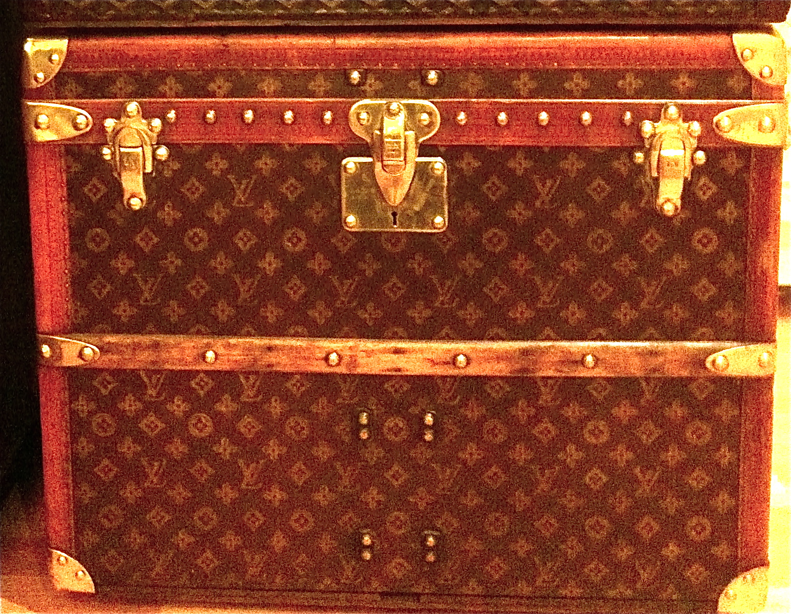 Louis Vuitton Steamer Trunk